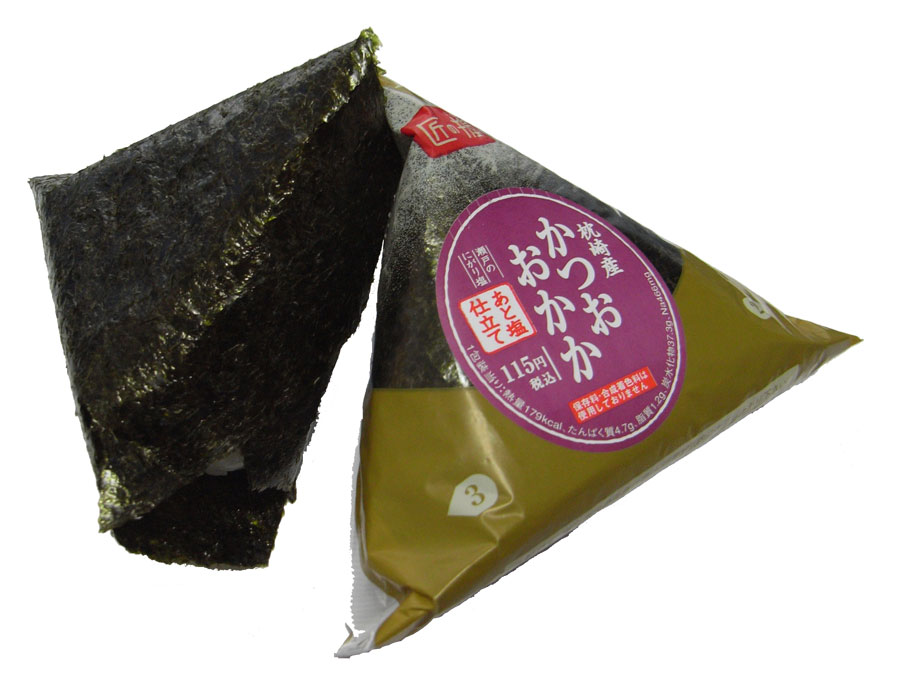 Onigiri bought at a convenience store in Nara, Japan. Left one's wrapping was removed.